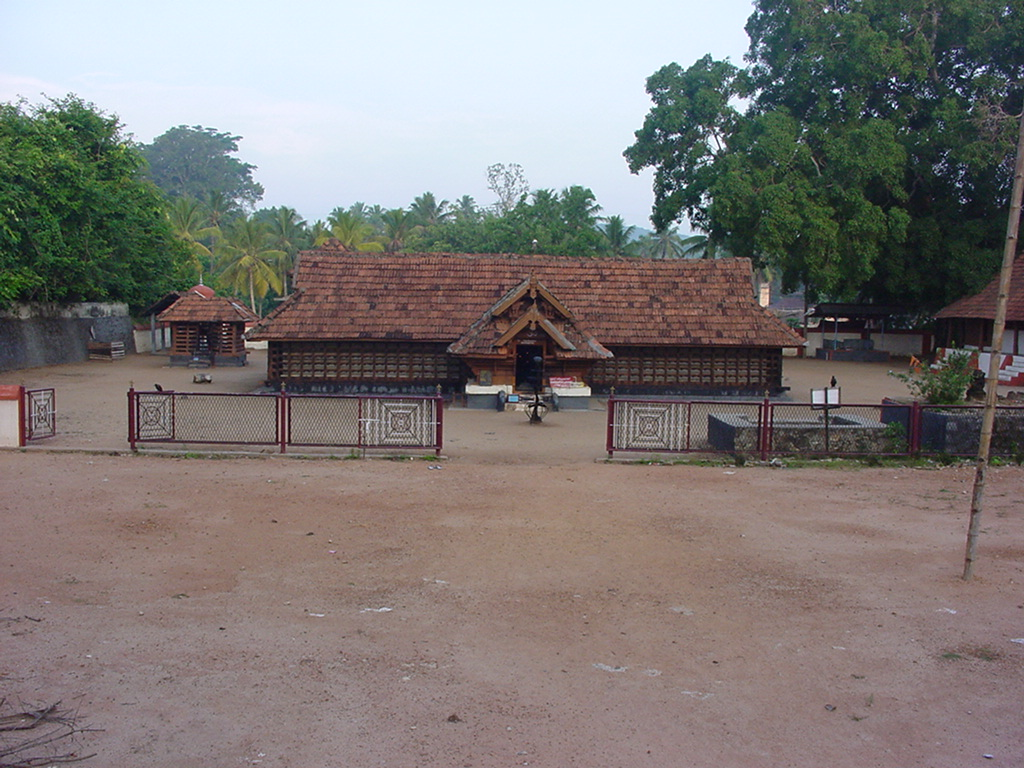 I have taken it personally when i visited the temple and i have the original photo with me. Please use it for spiritual things and for the temple promotion.